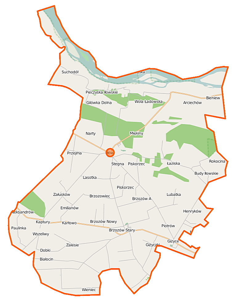 Map of Gmina Iłów, Poland This map of Iłów (gmina) was created from OpenStreetMap project data, collected by the community. This map may be incomplete, and may contain errors. Don't rely solely on it for navigation. Border coordinates52.422519.9285←↕→20.138652.2574